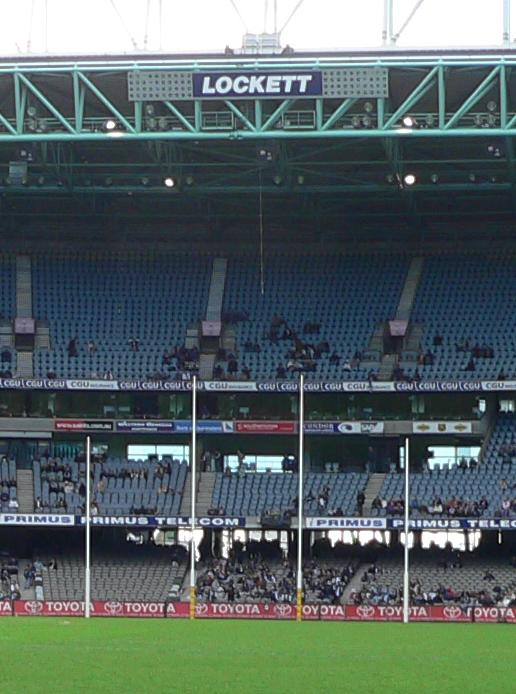 The Lockett End at the Telstra Dome, Melbourne, Victoria, Australia